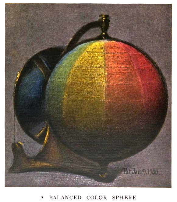 A color sphere; the color frontispiece from Albert Henry Munsell's 1905 pamphlet A Color Notation.